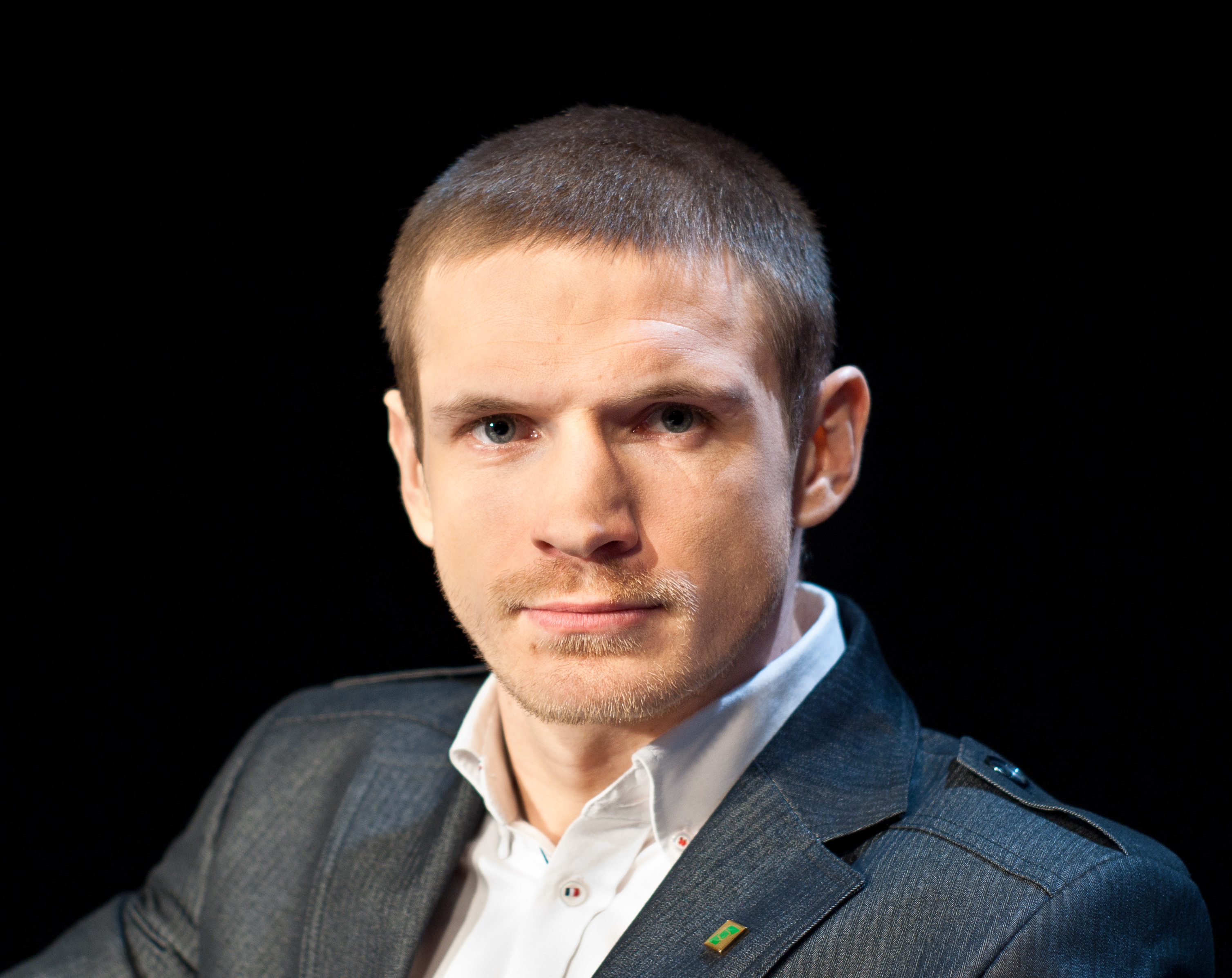 Grzegorz Proksa (born 23 November 1984 in Mysłowice) – is a Polish professional boxer, fighting in the middleweight division.